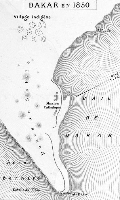 Dakar in 1850